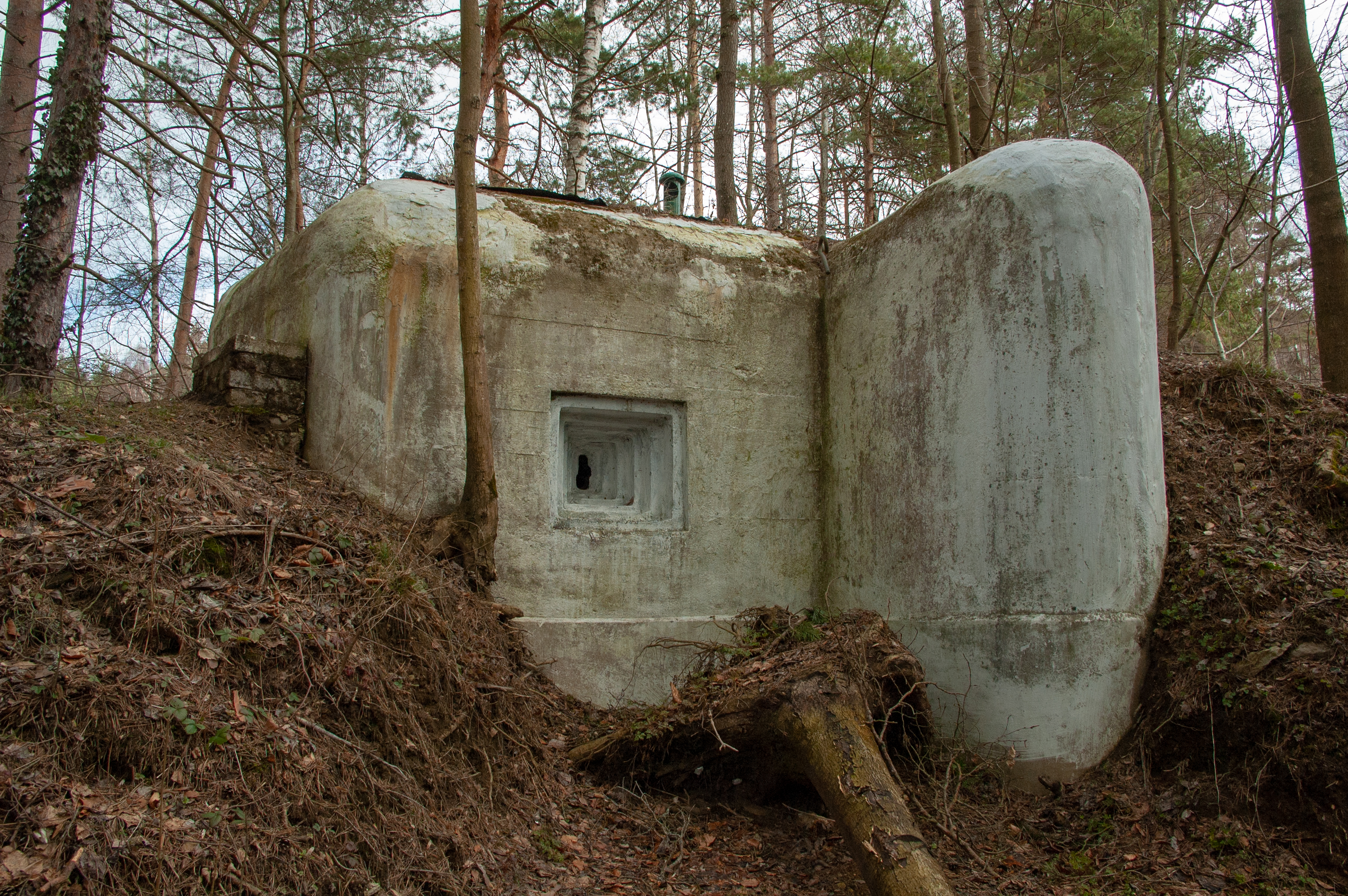 This image was created as a part of Editaton Prachatice (Czech).